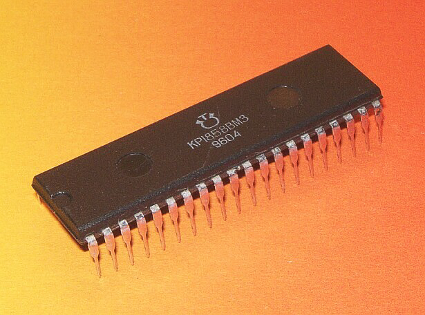 USSR CPU KR1858VM3